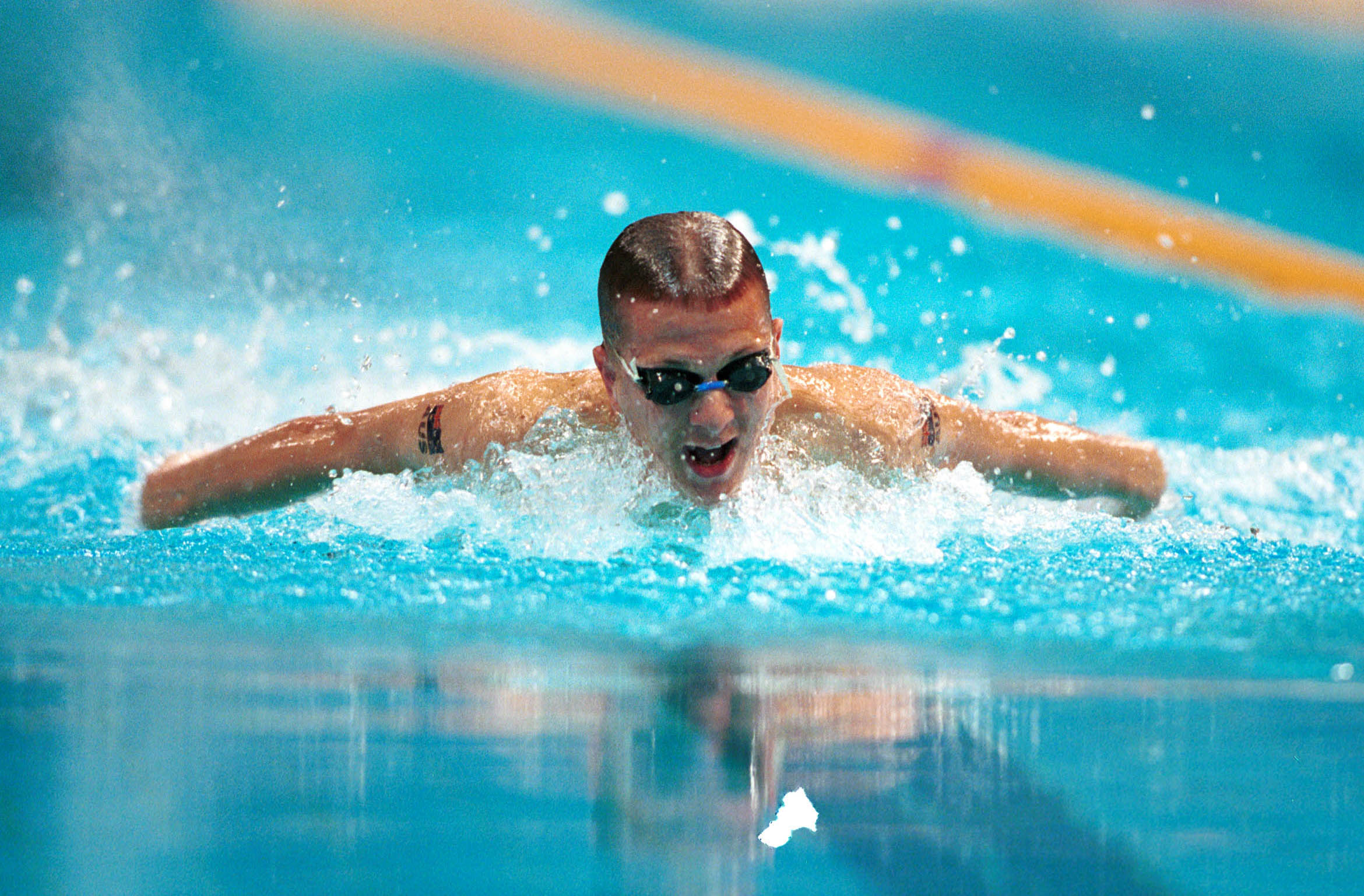 Action shot of Australian swimmer Stewart Pike in the pool during Day 03 of the 2000 Sydney Paralympic Games